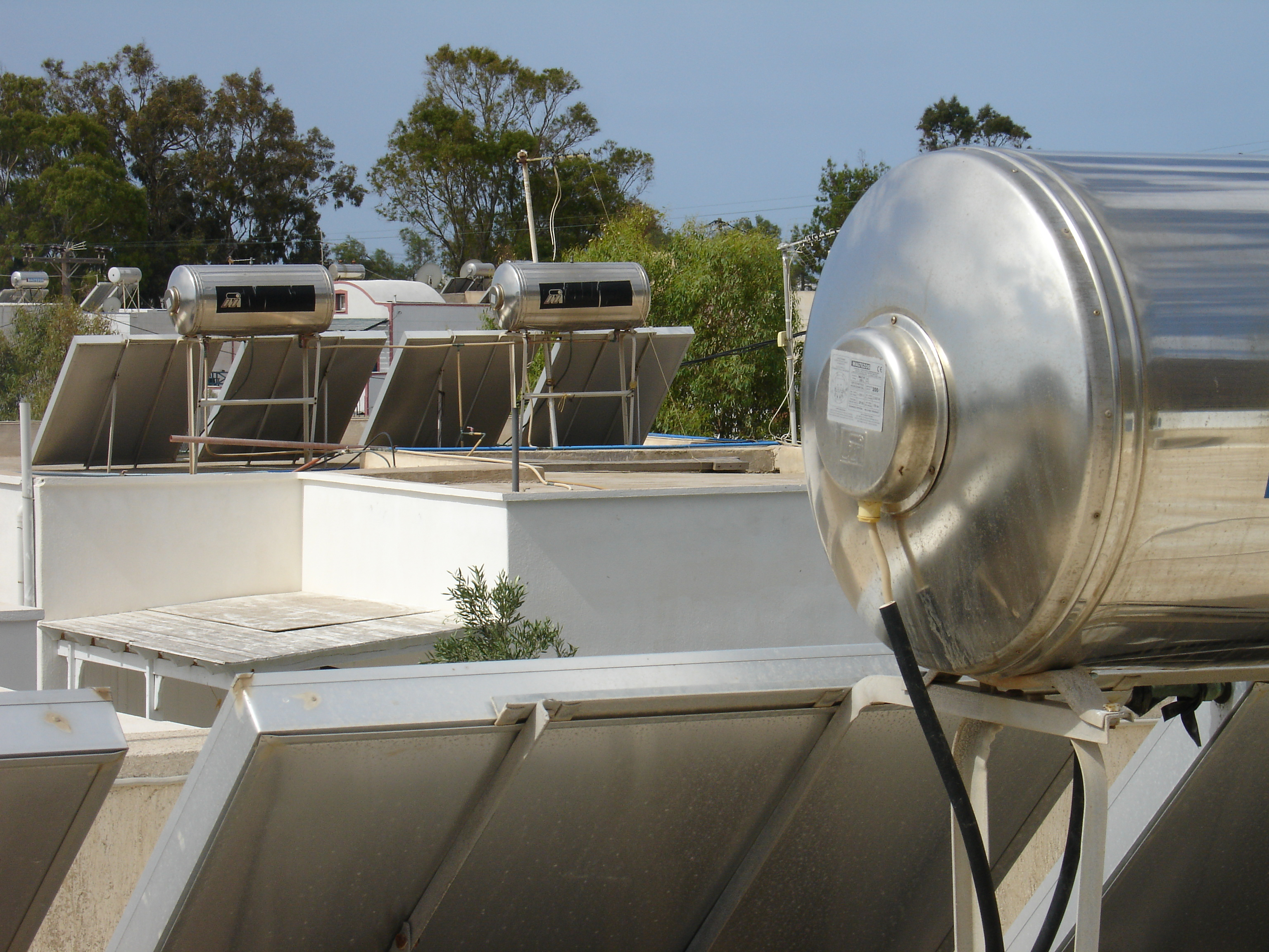 Solar thermal energy is very popular in Greece. This photo was taken from top of a building in Perissa, Santorini, Greece. There are clearly visible tanks and solar panels in most of the buildings shown in the photo.